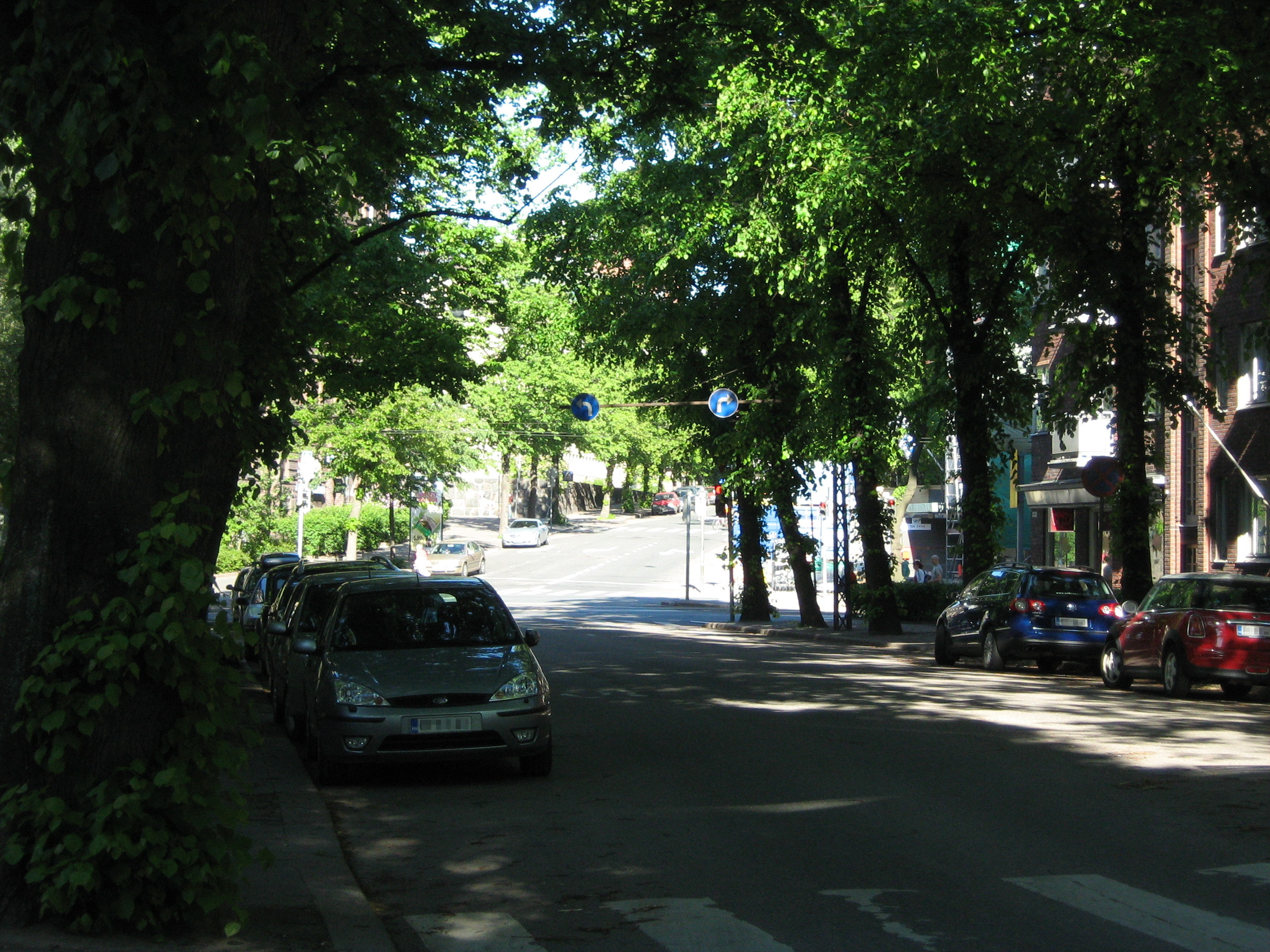 Arkadiankatu and Mechelininkatu streets in Helsinki